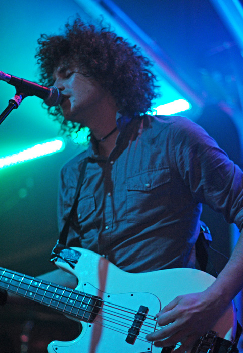 Capitol Stage @ The Amplifier Bars 10 Year Anniversary NYE Party